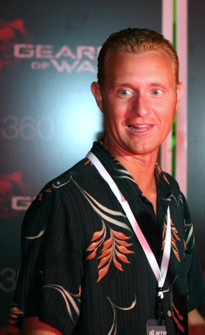 Joshua Ortega at E3 2008.